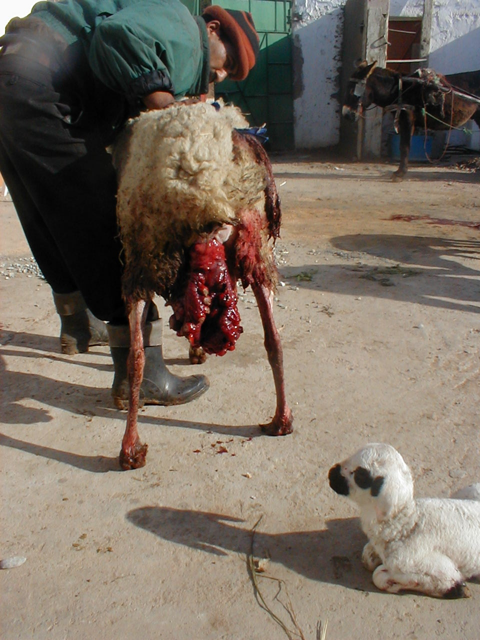 Uterine prolapse (ewe) Walon: forboutaedje del velire (berbis)